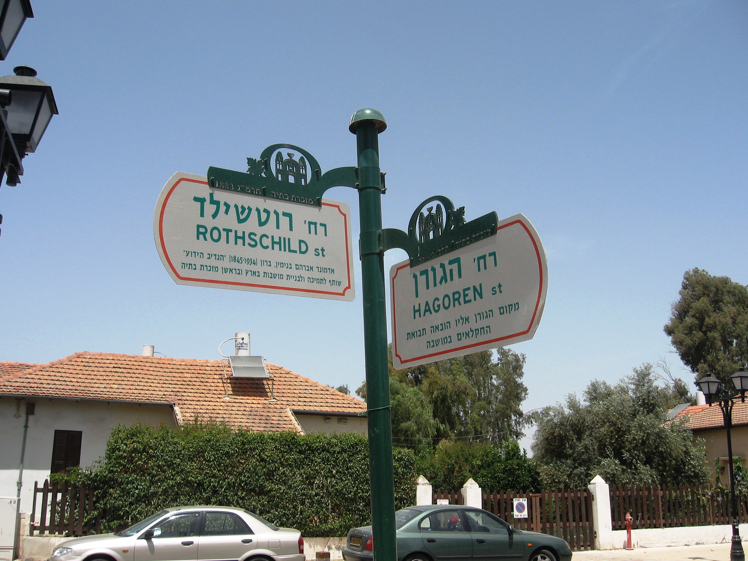 the museon picture from the past